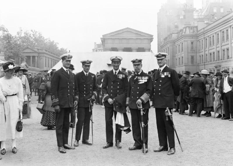 Group of Naval VC's at a party given for holders of the Victoria Cross by King George V at Wellington Barracks. Left to right: Percy Thompson Dean, awarded the Victoria Cross: HM ML 282, Zeebrugge and Ostend, Belgium, 22/23 April 1918; Gordon Charles Steele, awarded the Victoria Cross: HM Coastal Motor Boat 88, Kronstadt Harbour, Russia, 18 August 1919; Augustus William Shelton Agar, awarded the Victoria Cross, HM Coastal Motor Boat 4, Kronstadt Harbour, 17 June 1919; Arthur Knyvet Wilson (later Admiral Sir Arthur Wilson), awarded the Victoria Cross: Sudan, 1884; Edward Unwin, awarded the Victoria Cross: HMS RIVER CLYDE, Gallipoli, 25 April 1915.